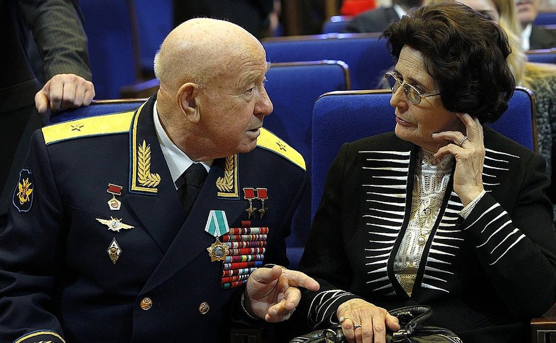 At gala concert honouring Cosmonautics Day. Member of the first squad of cosmonauts Alexei Leonov and Yury Gagarin’s widow Valentina Gagarina.